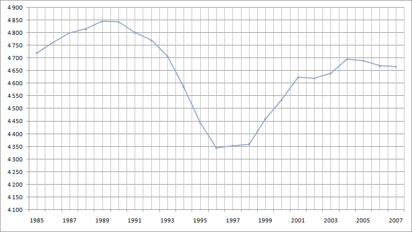 This diagram shows changes in population of Klaksvík since 1985 for 2007. It's made in Microsoft Excel 2007 program.